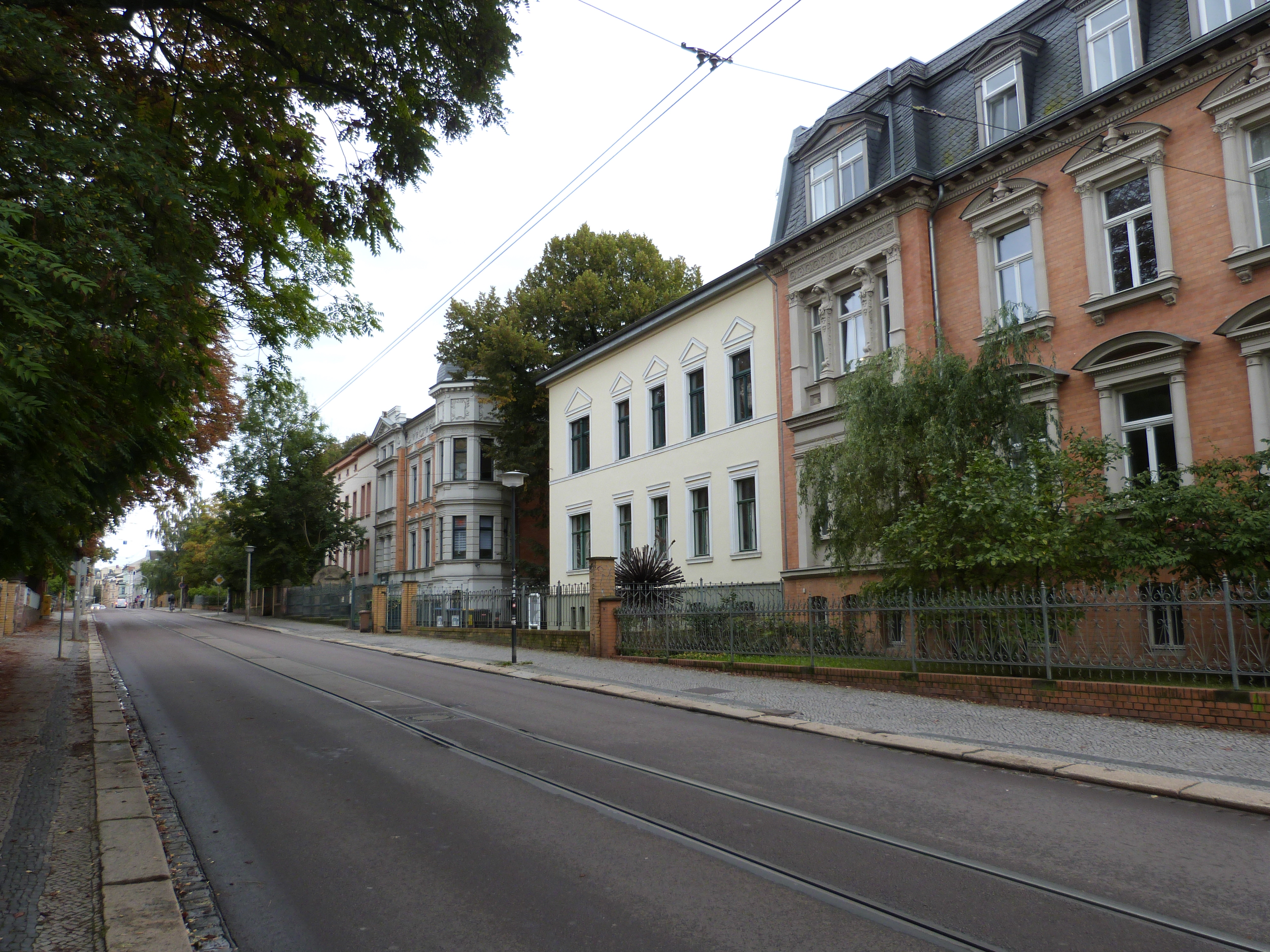 Street Mühlweg in Halle (Saale), western part, view to the Bernburger Strasse